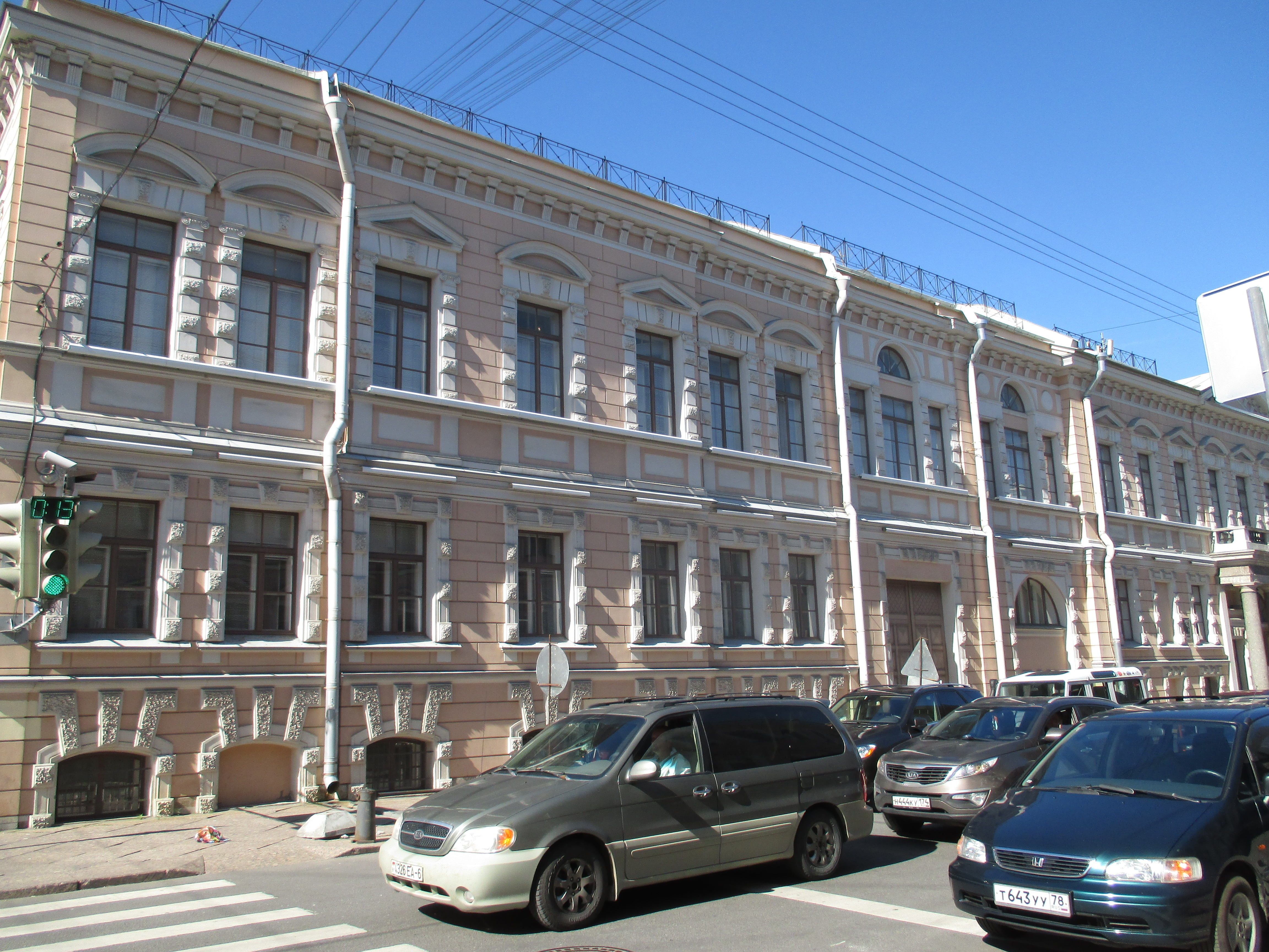 Bezborodko Palace in Saint Petersburg - southern facade